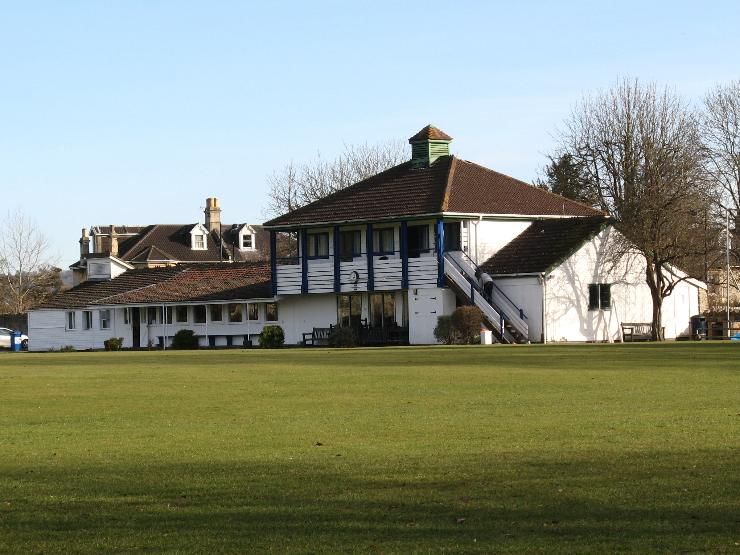 Lansdown Cricket Club clubhouse, from the Royal United Hospital grounds.